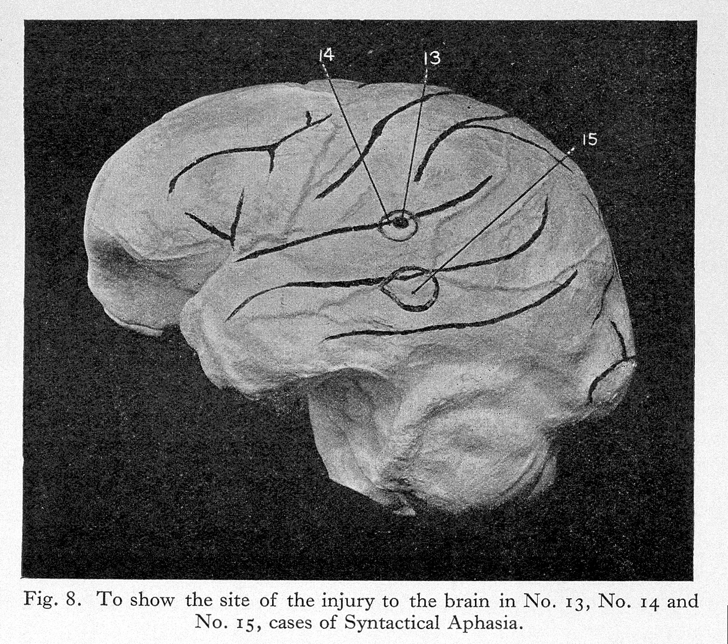 Site of lesion in various forms of aphasia. General Collections Keywords: Aphasia; Speech Disorders; Psychology; Neurology